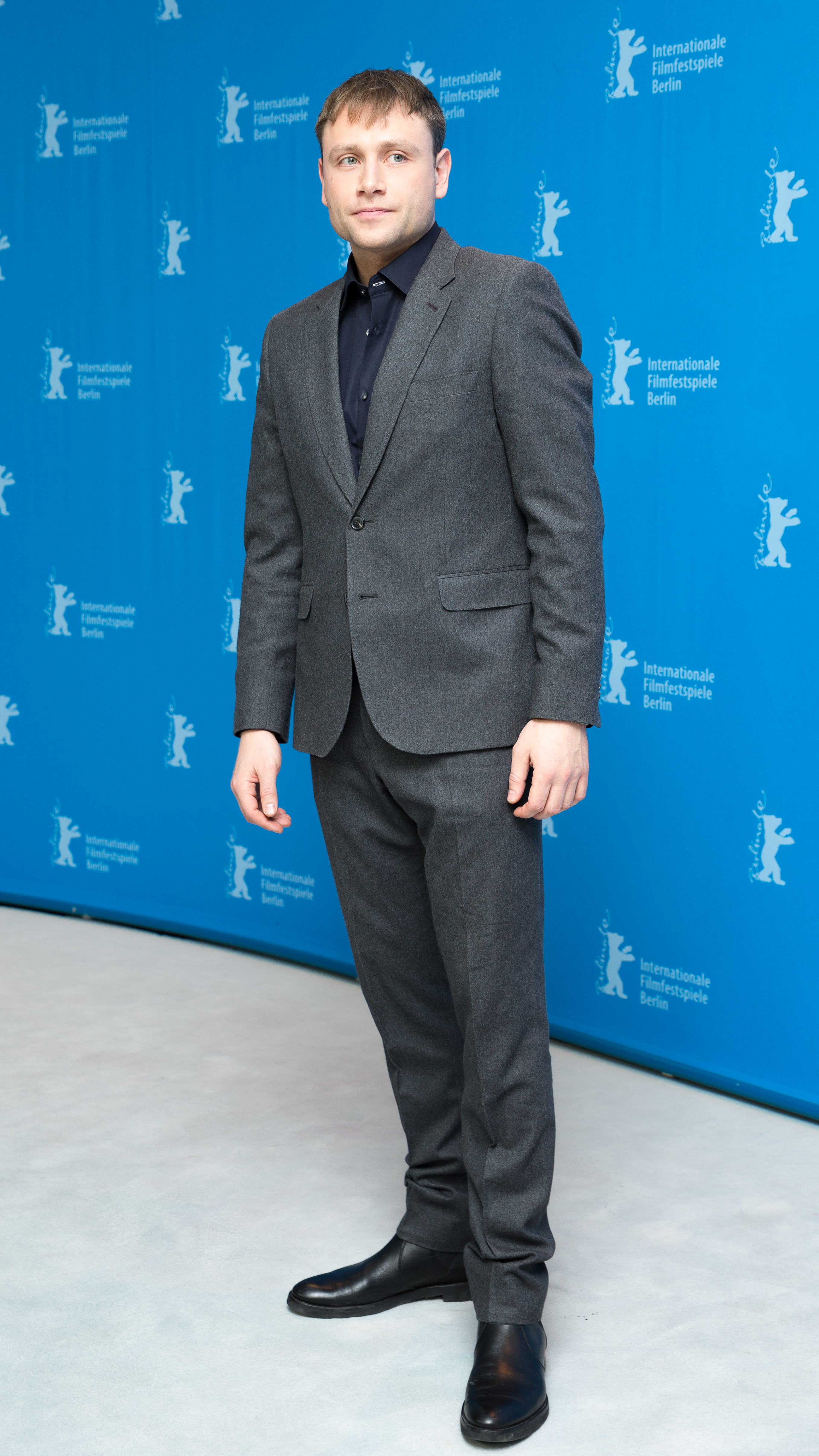 The actor Max Riemelt presenting Berlin Syndrome at the Berlinale 2017